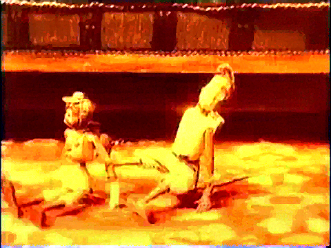 Screenshot from the italian short movie (maybe the first italian movie with stop motion animation) La guerra ed il sogno di Momi- made in 1917 by Segundo de Chomón e Giovanni Pastrone, (in this picture the little toy soldiers come alive with the stop motion technique) .png